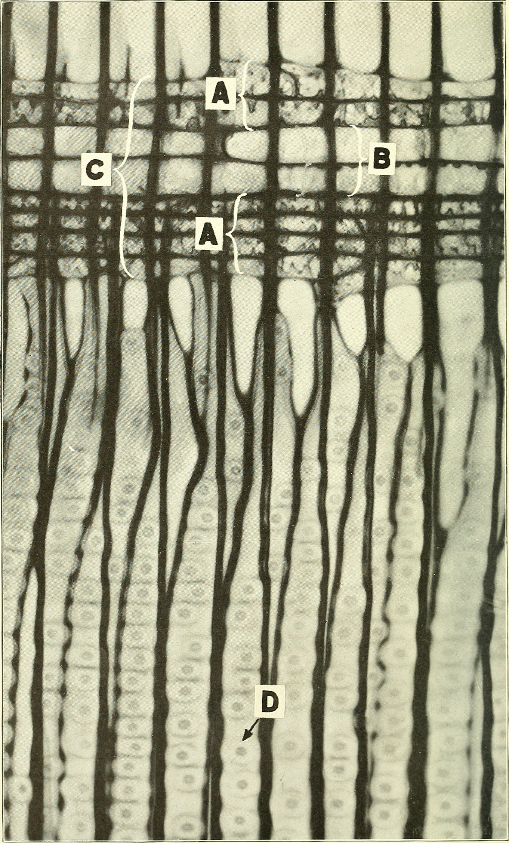 Title: Bulletin of the U.S. Department of Agriculture Year: 1913-1923. (1910s) Authors: United States. Dept. of Agriculture Subjects: Agriculture; Agriculture Publisher: (Washington, D. C. ?) : The Dept. : Supt. of Docs. , G. P. O. Text Appearing Before Image: Bui. 101, U. S. Dept. of Agriculture. Plate II. Text Appearing After Image: Radial Section of Shortleaf Pine (Pinus echinata). (Magnification 250 Diameters.) A, ray tracheids; B, ray cells; C, medullary ray; D, bordered pits.